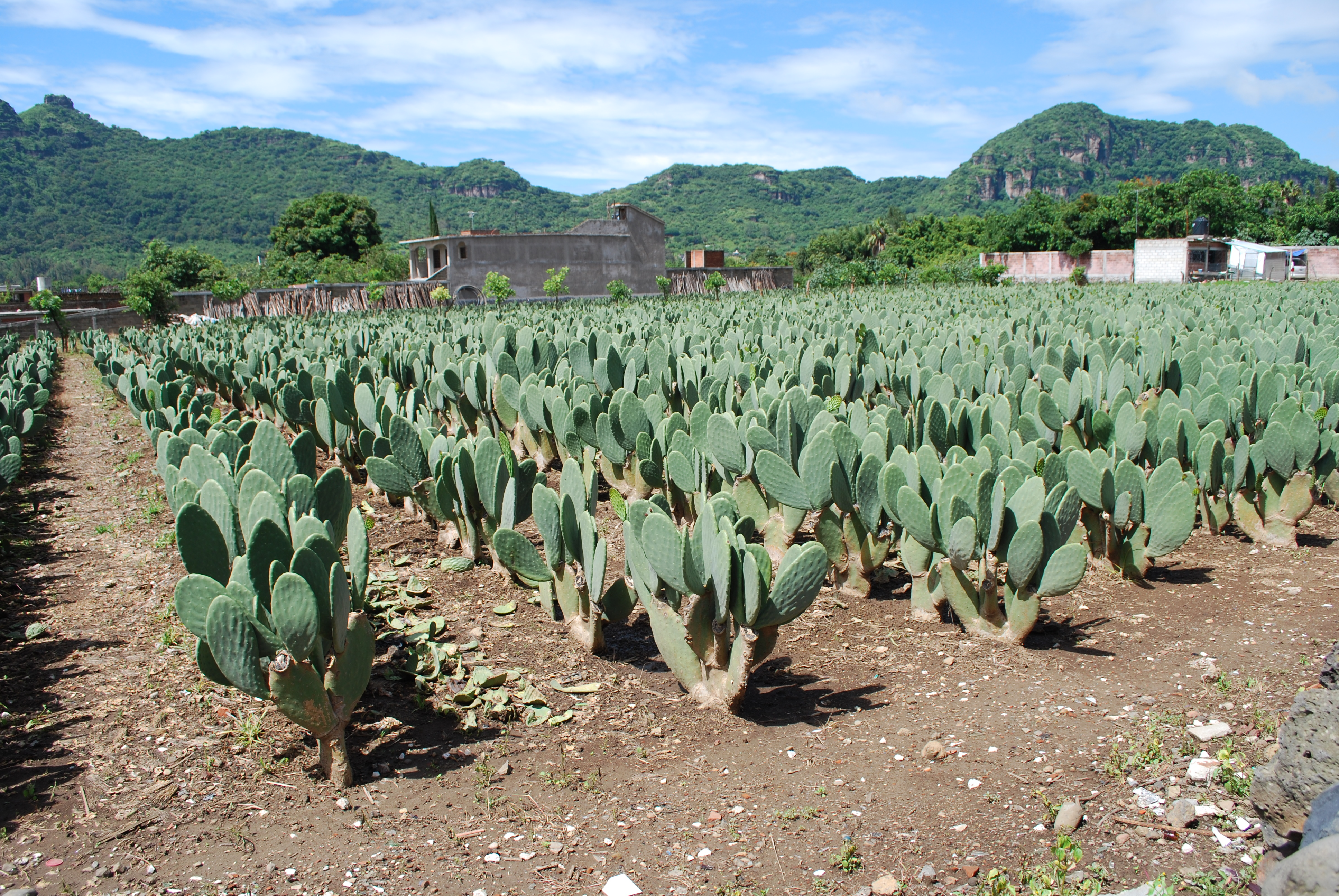 Nopal field in Tlayacapan, Morelos Mexico